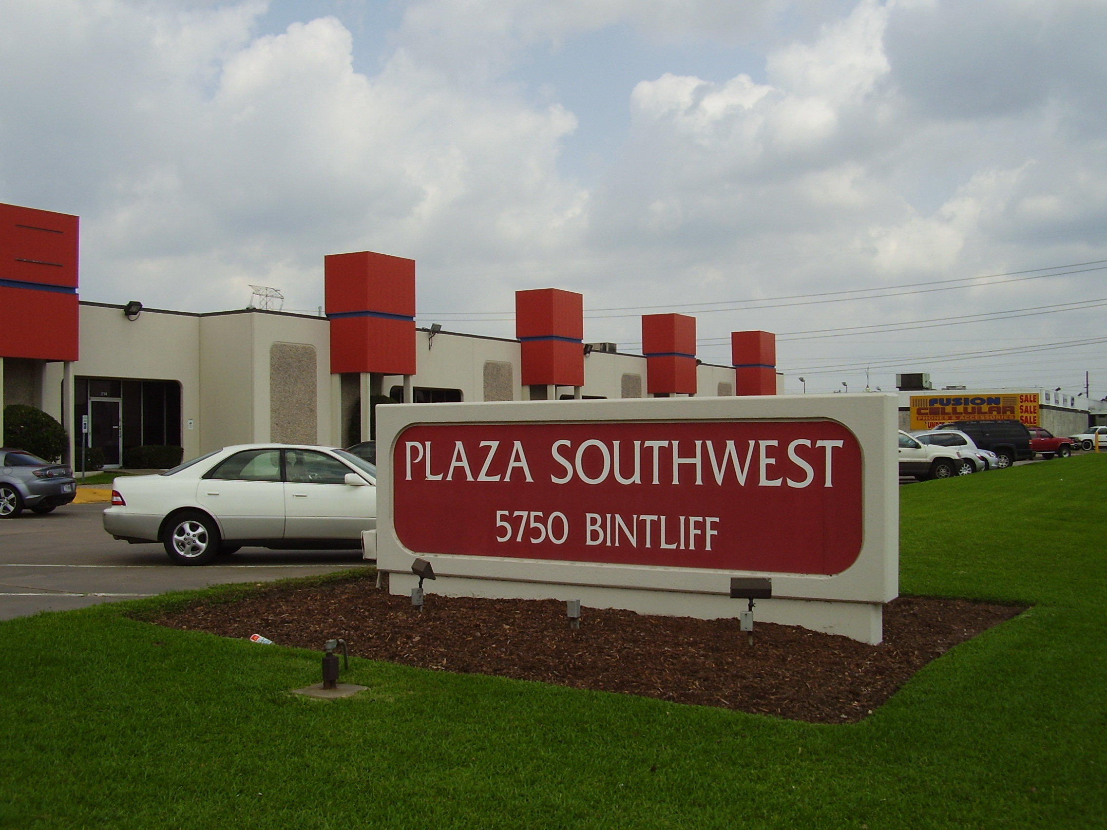 The Plaza Southwest complex at 5750 Bintliff - Included the headquarters for AD Vision